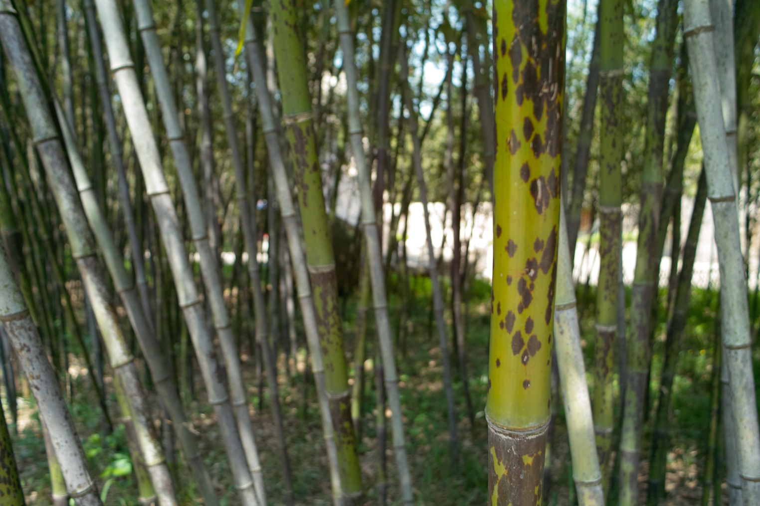 one kind of bamboo